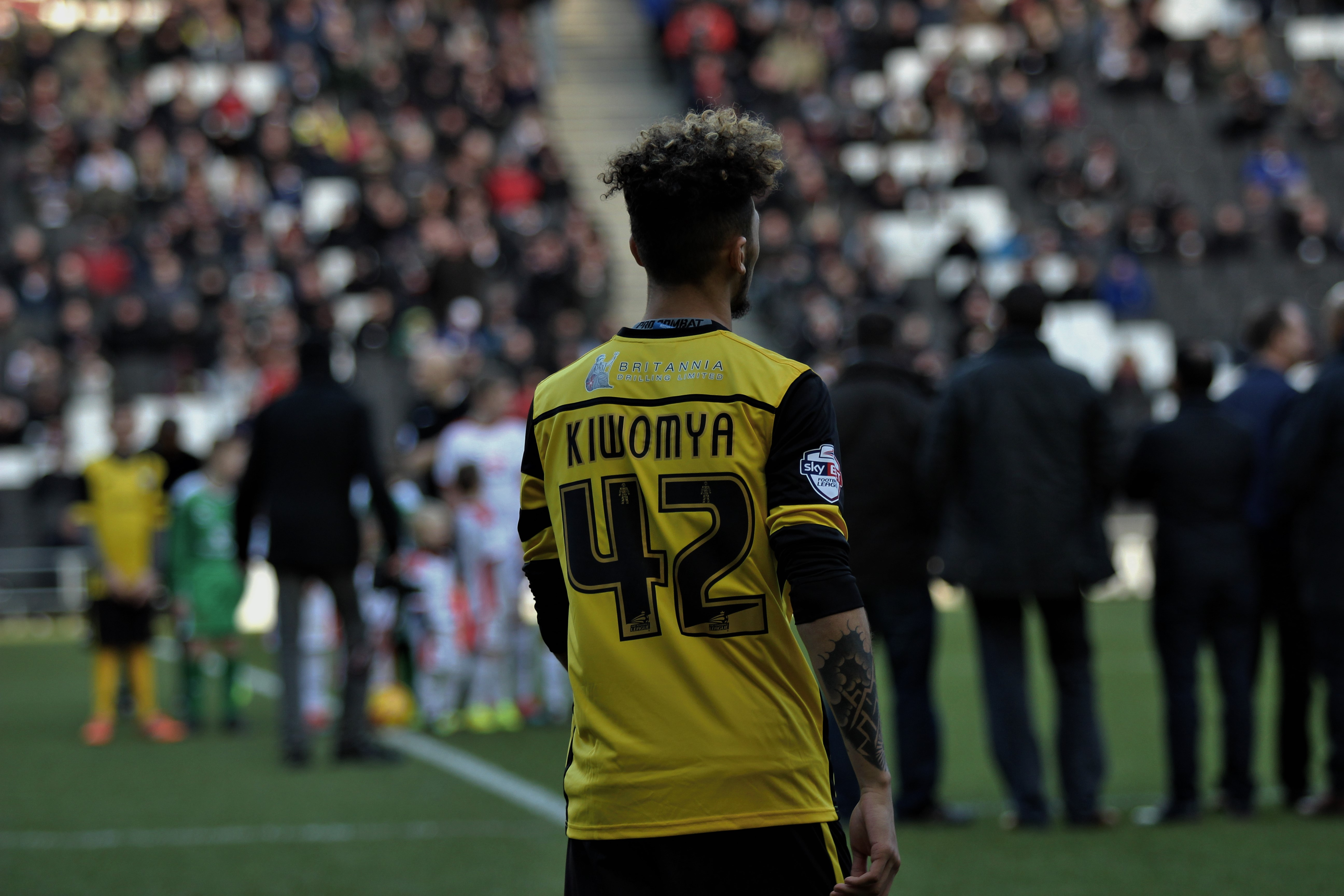 Alex Kiwomya of Barnsley before the League 1 game against MK Dons